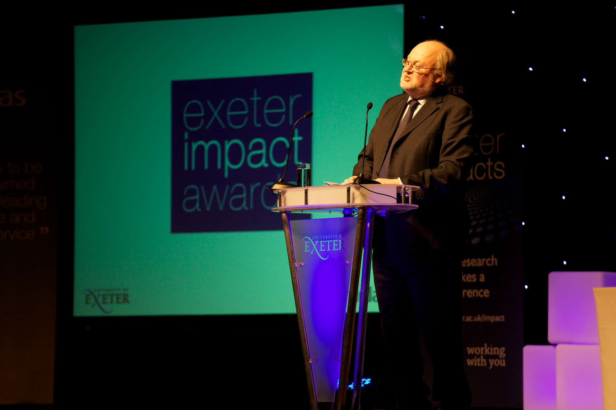 Sir Steven Murray Smith, international relations theorist, academic, and senior university manager.